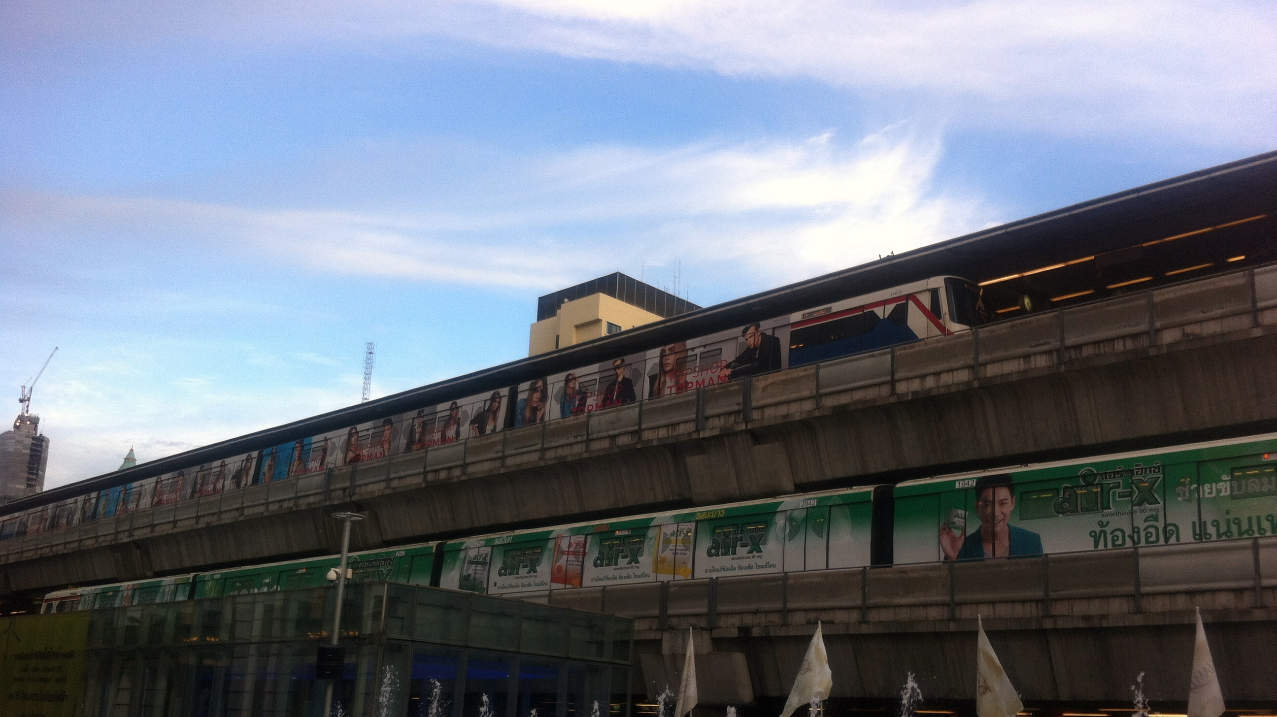 Siam station East platform